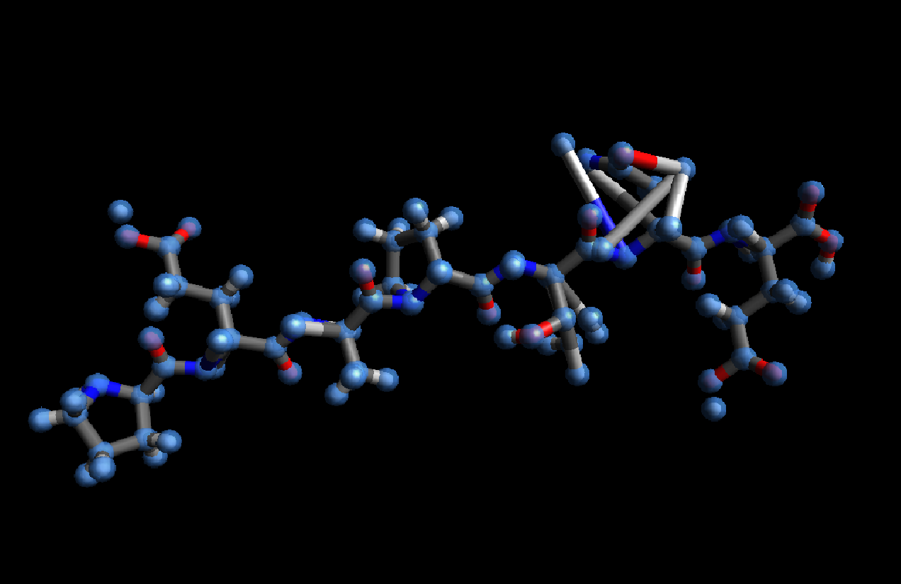 transferrin lobe union peptide